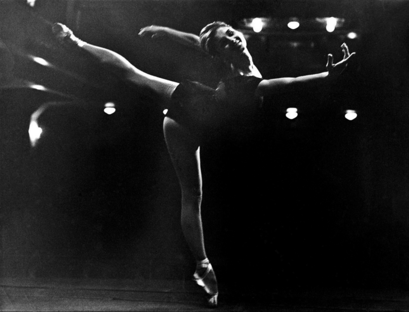 Turkish Prima Ballerina Gulcan Tunccekic in a rehearsal in 1960ies. The picture was firsr released in her official Facebook page with the special permission of her son Pamir Kiraner. The usage of the picture is only allowed with a reference given to Gulcan Tunccekic's name.